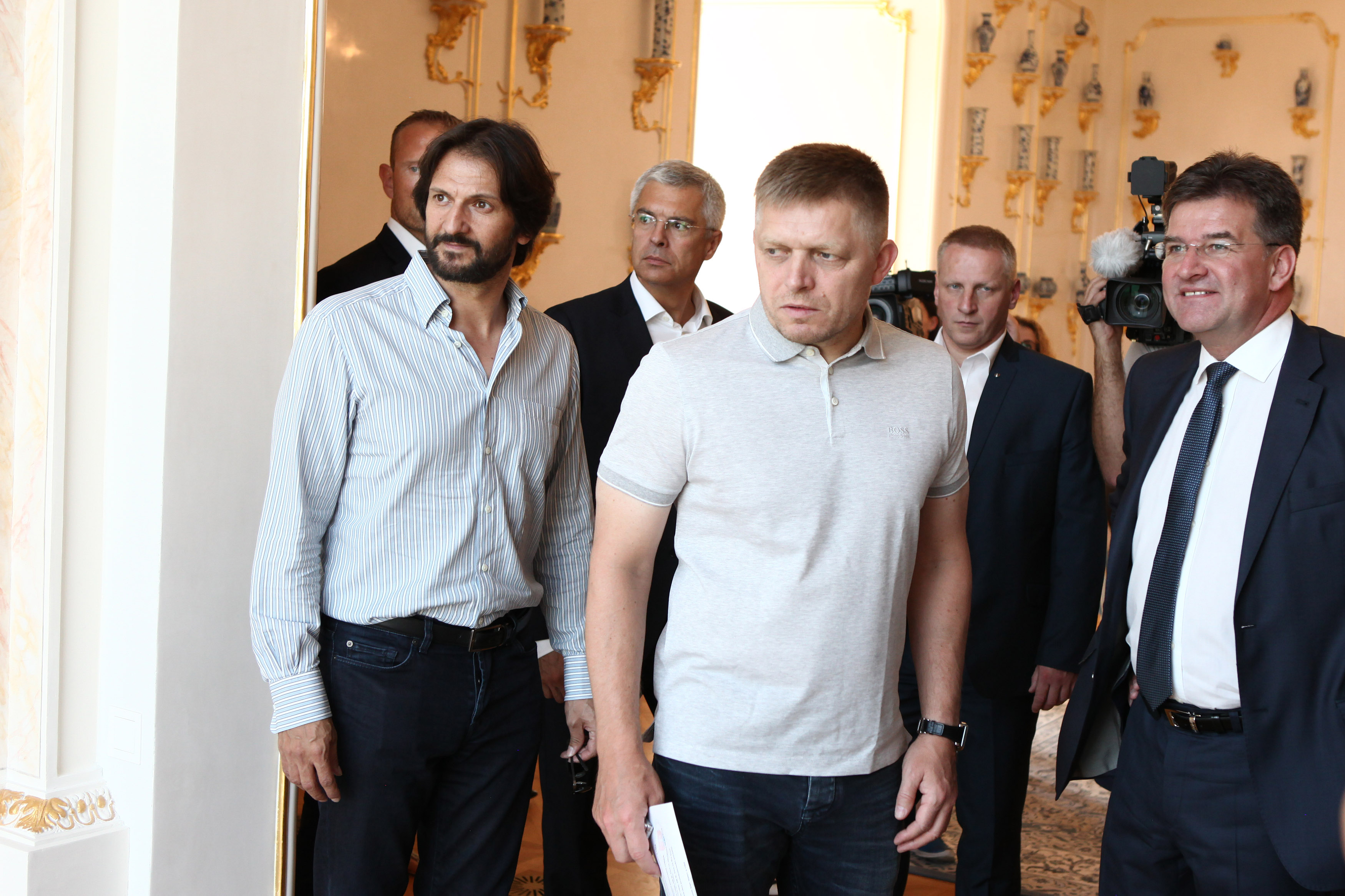 Slovakia, Mr. Robert Kalinak, Minister of Interior (L), Slovakia, Mr. Ivan Korcok, Ministry of foreign and European Affairs, State Secretary (2nd L), Slovakia, Mr. Robert Fico, Prime Minister (C), Slovakia, Mr. Miroslav Lajcak, Minister of foreign and European Affairs (R) Photo: Andrej Klizan